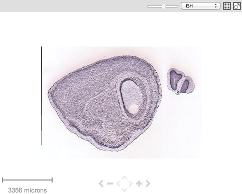 Example of Actin Beta protein expression in mouse brain.